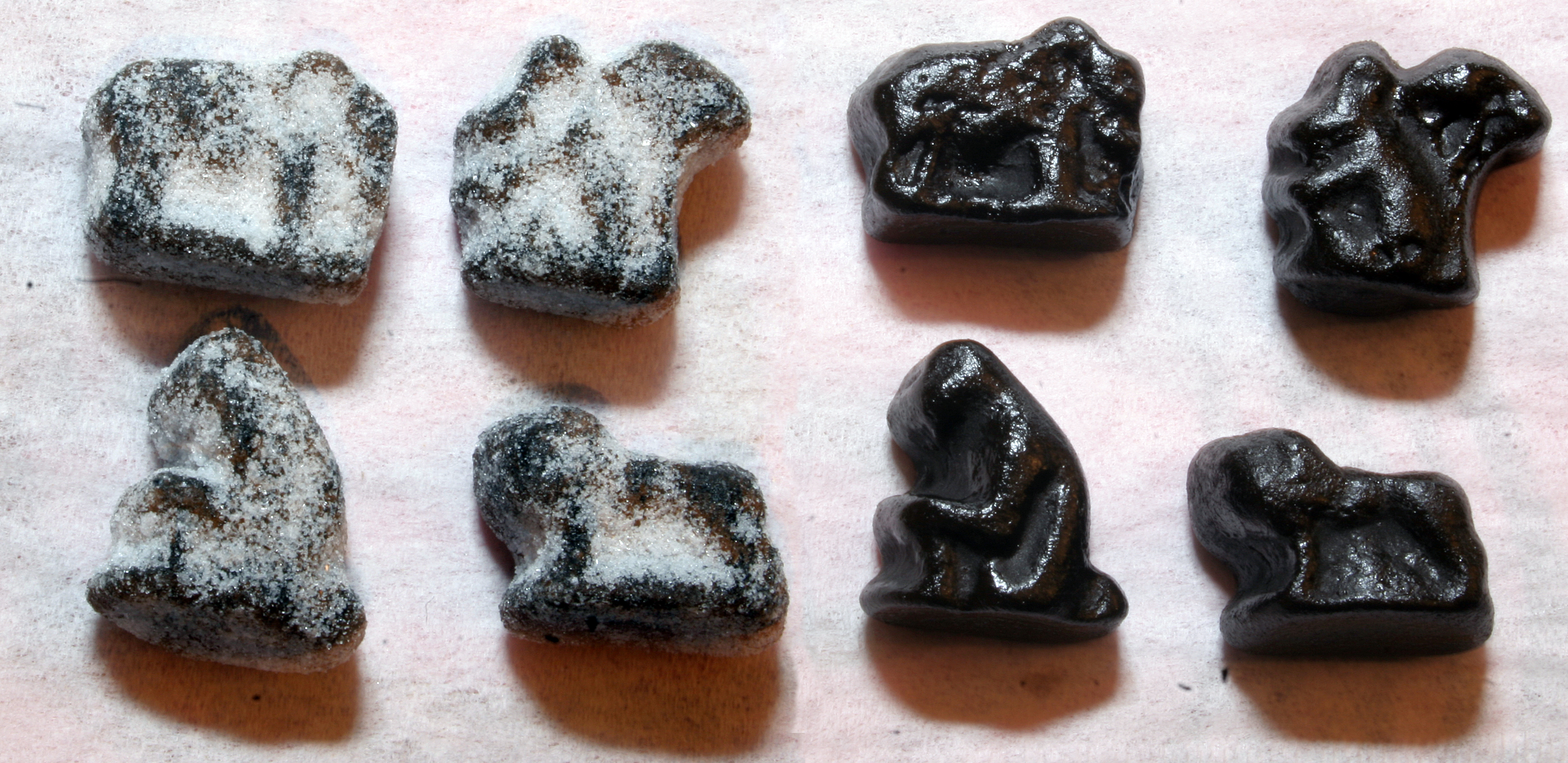 "Djungelvrål" liquorice candy from Malaco candy brand. The picture is a combination of photos image:Malaco-12.jpg and image:Malaco-15.jpg. In the right hand picture, sugar has been washed away to better show the shapes.